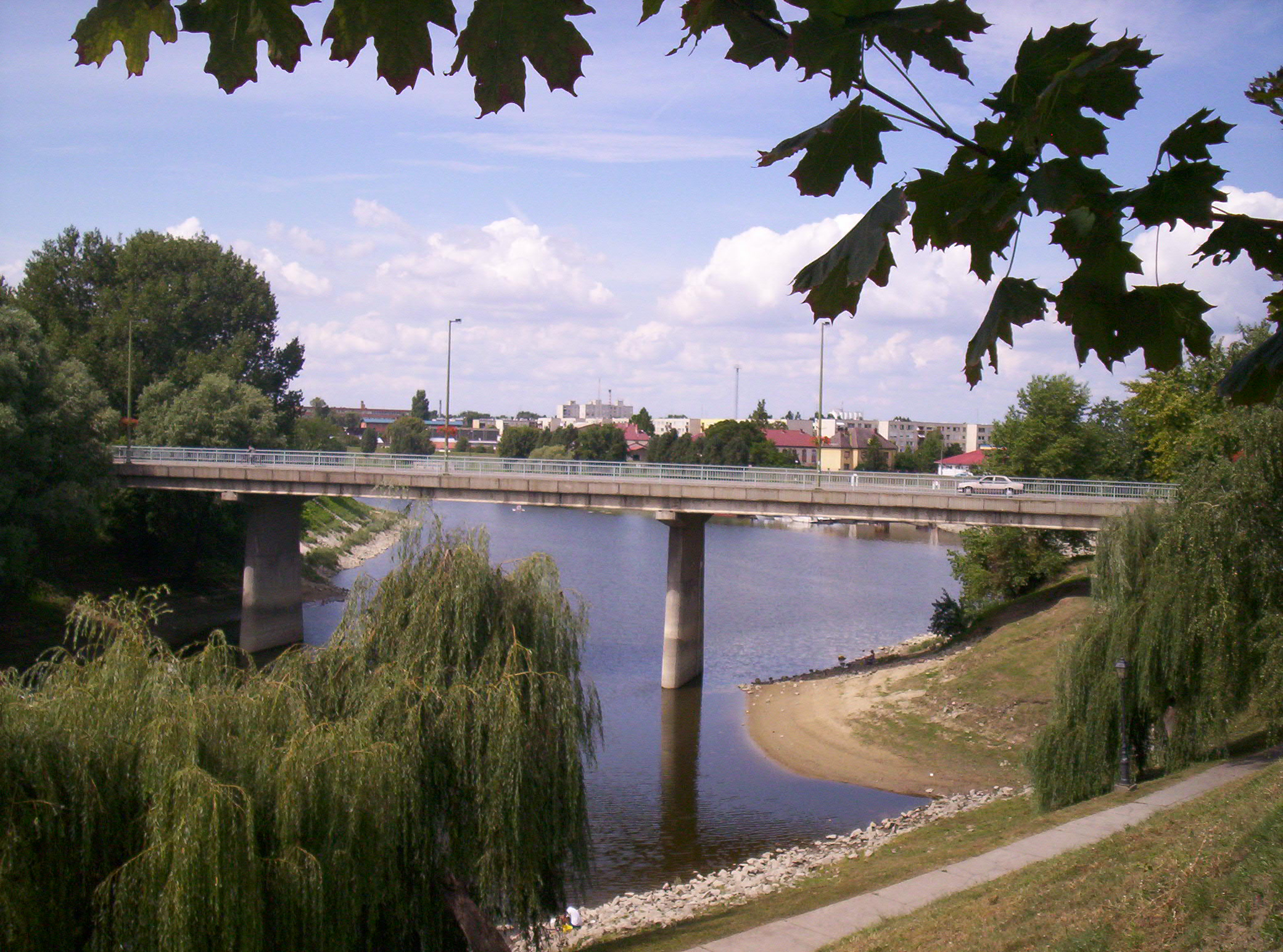 Unknown language: A Sugovica-híd Baján a Kamarás-Duna (Sugovica) felett